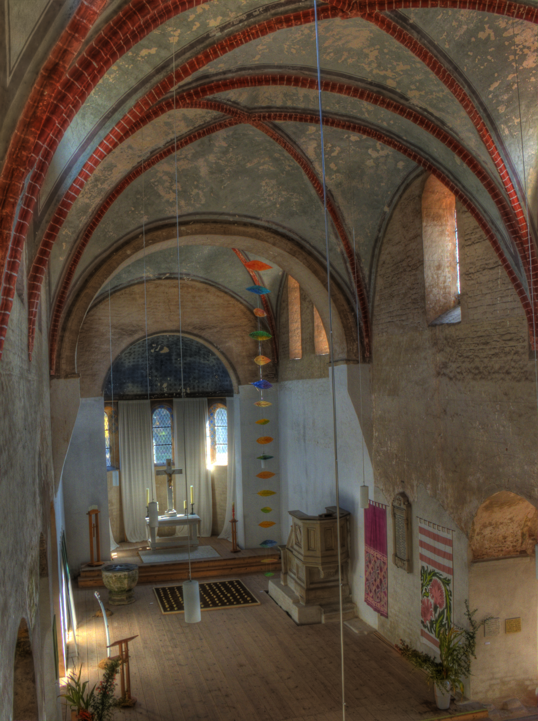 Church St Nicolaus in Beuster. Complete build from baked bricks. The church was finished to build in 1172.